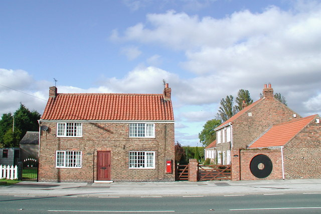 Main Road, Camerton, East Riding of Yorkshire, England. Pillar Box Cottage and The Forge on the north side of the A1033. Pillar Box Cottage has a post box set into the wall.